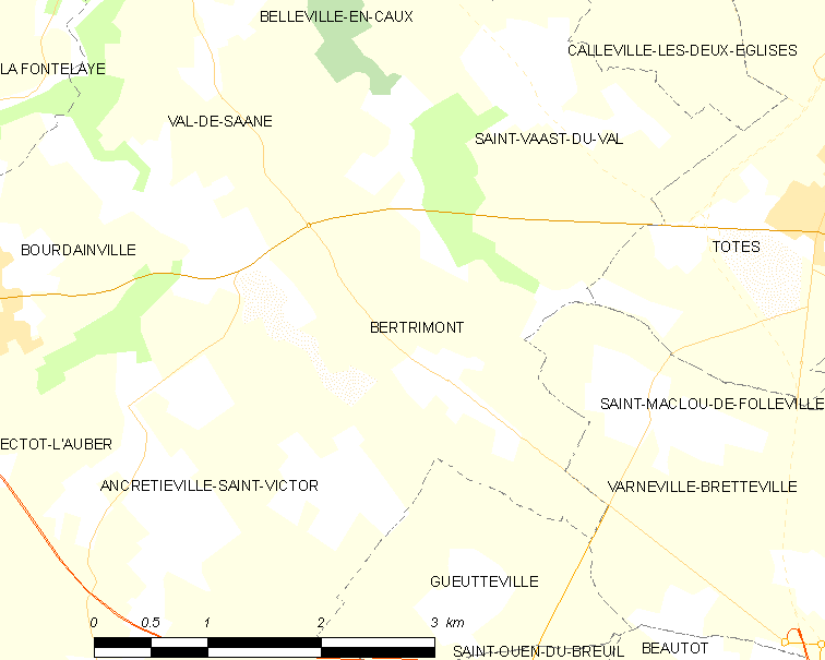 Map of French municipality Bertrimont